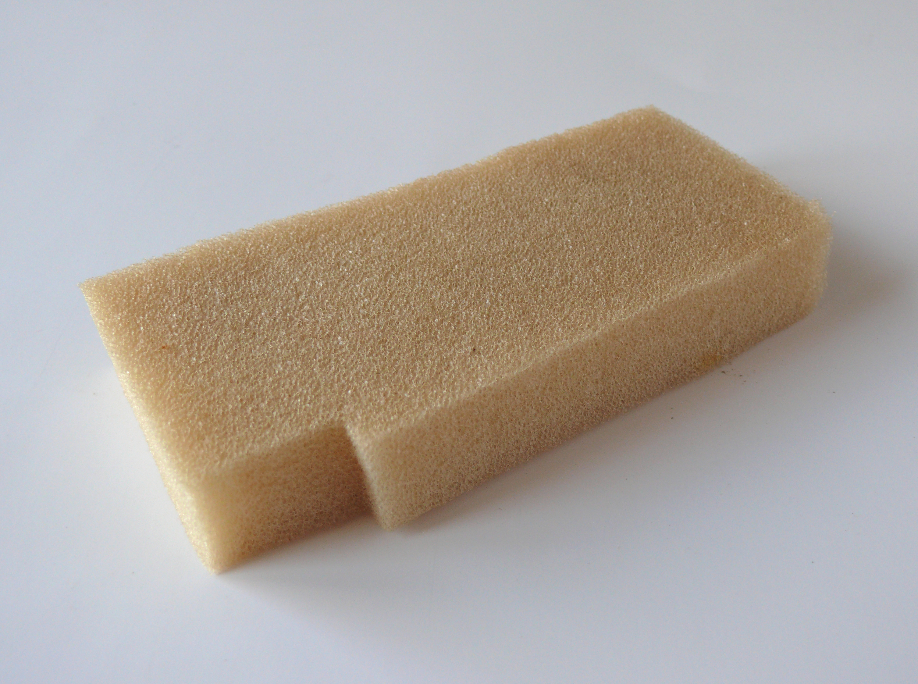 White foam rubber